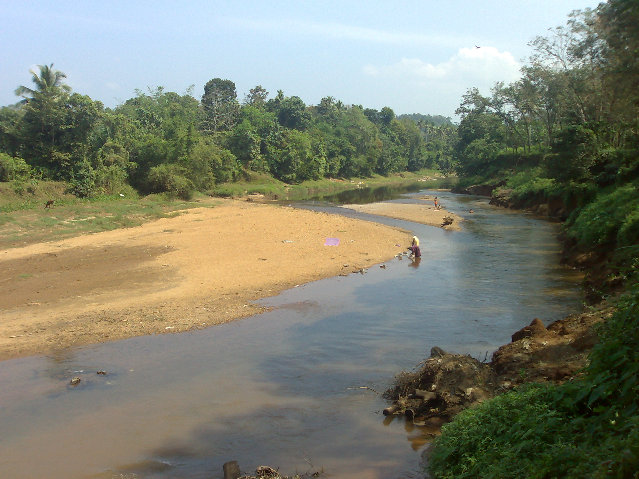 A photograph of the Achenkovil River during the dry season. It also depicts local residents having baths and doing laundry. River bed is visible.